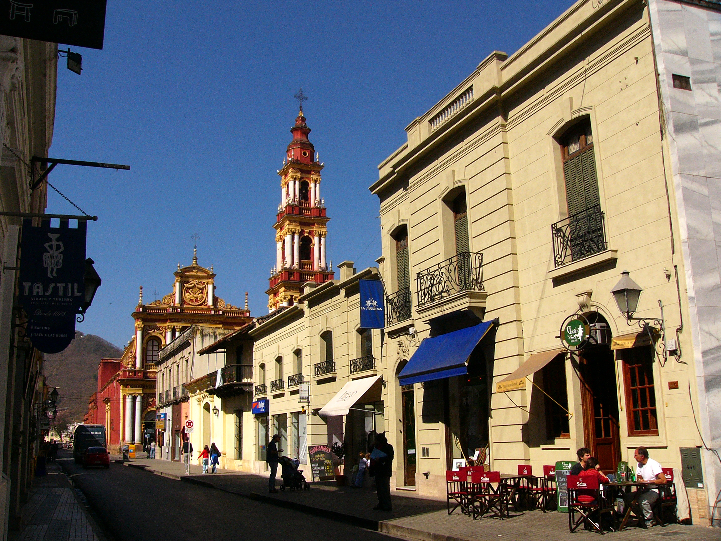 Casero Street in Salta, Argentina.